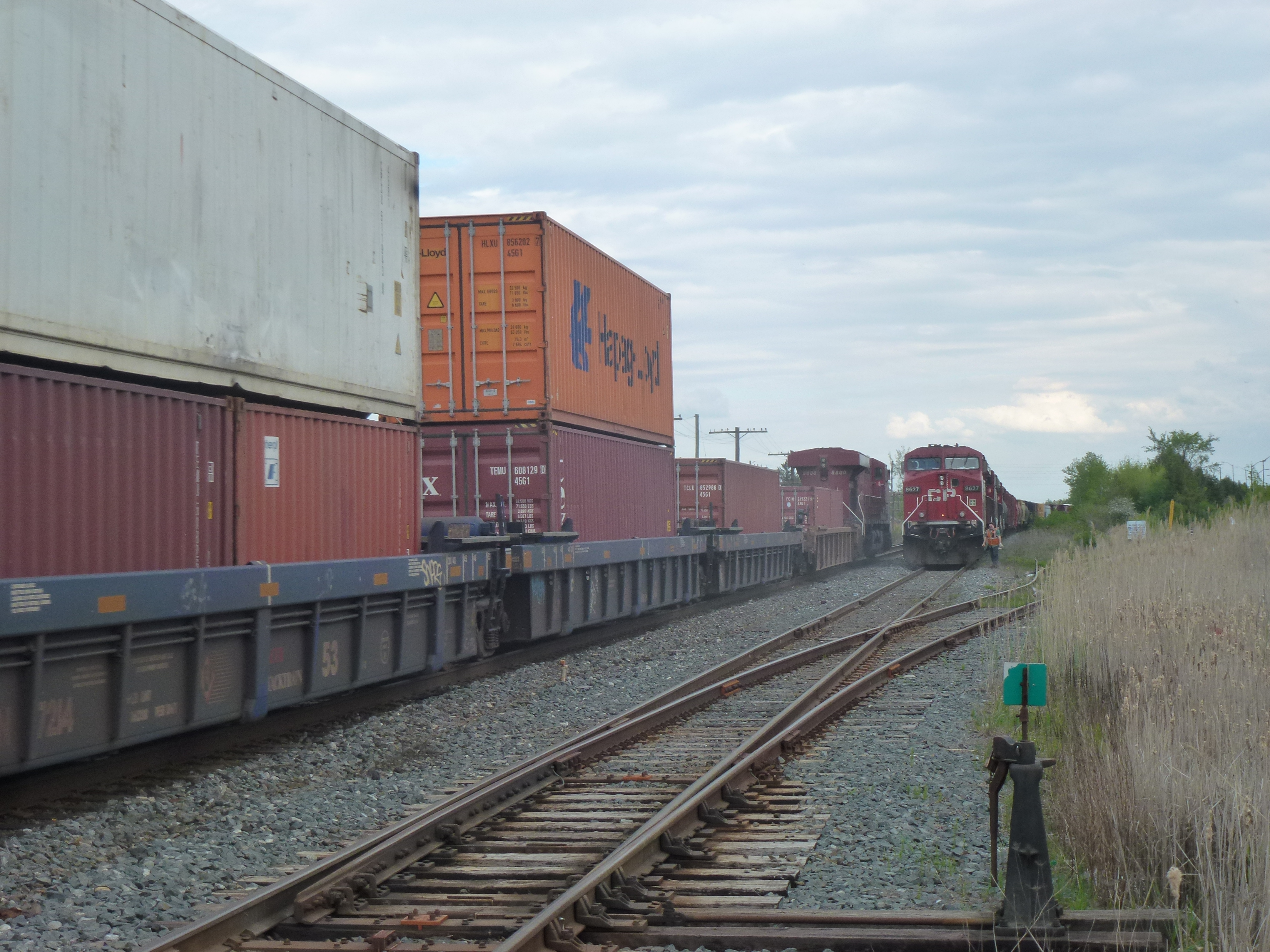 A westbound Canadian Pacific freight train (right) waits on a passing siding at Bolton, Ontario on 23 May 2017 while another, eastbound one (left) passes by. The former is headed by CP locomotives 8627, 9615, 8629 & 8609 and the latter by CP locomotive 8800, with helper locomotive Union Pacific 5501 partway through the train (reason for "alien" locomotive so far from home line unknown). The track branching off to the right is an industrial siding.